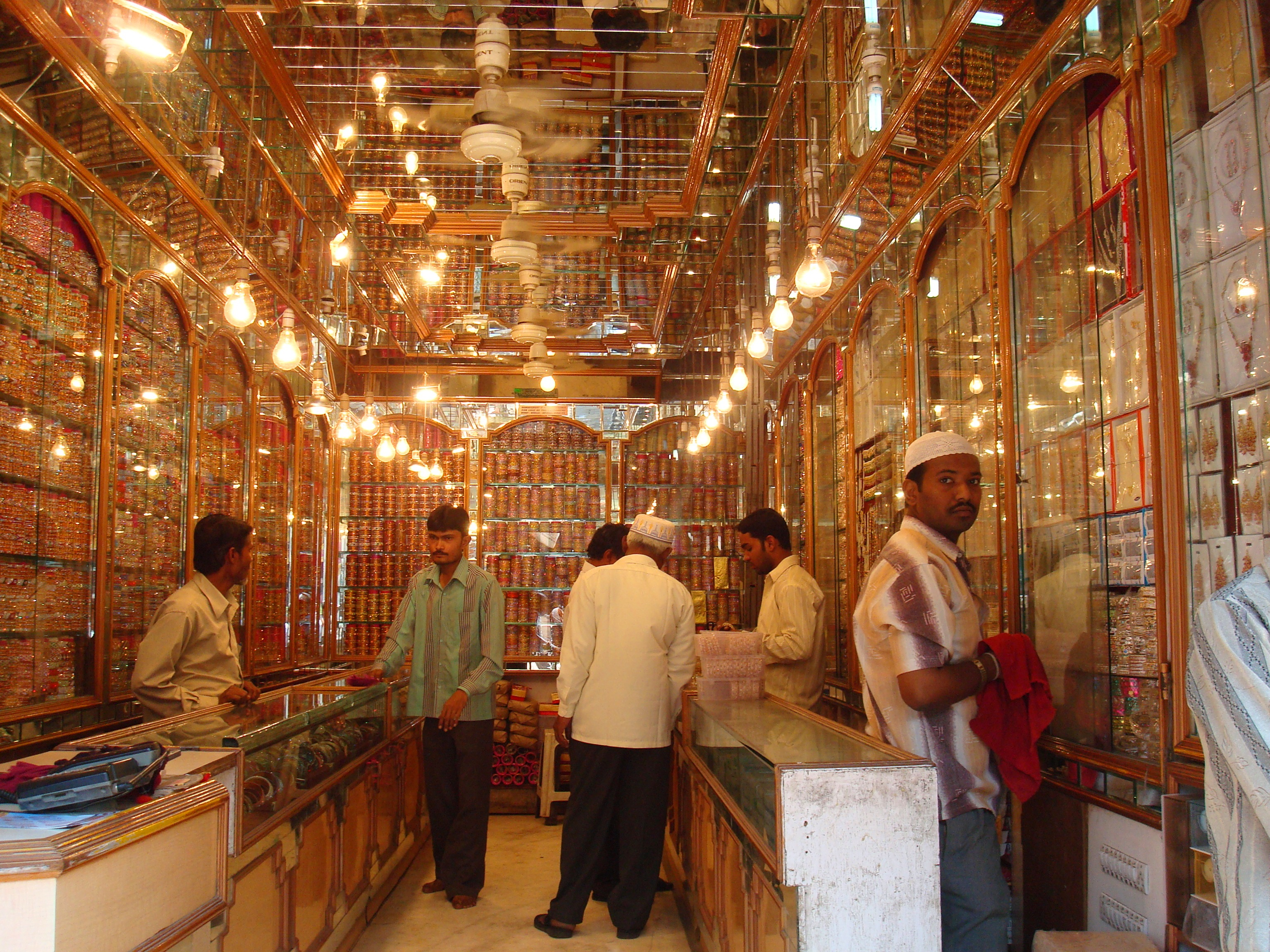 This image shows a store at Laad bazar, which sells pearls, jewellery etc.